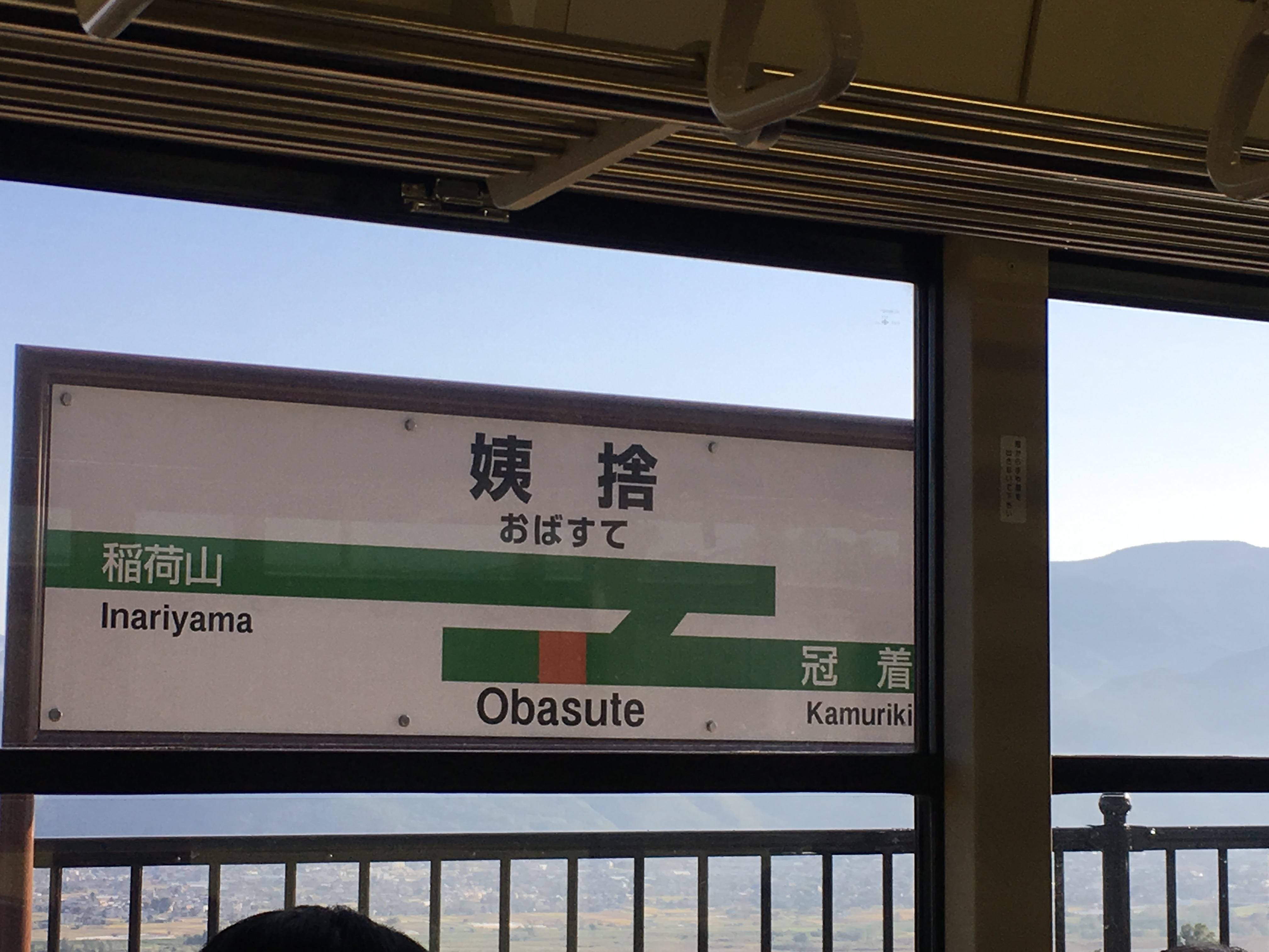 This is a photo of the JR East Obasute Station platform sign displaying the switchback.